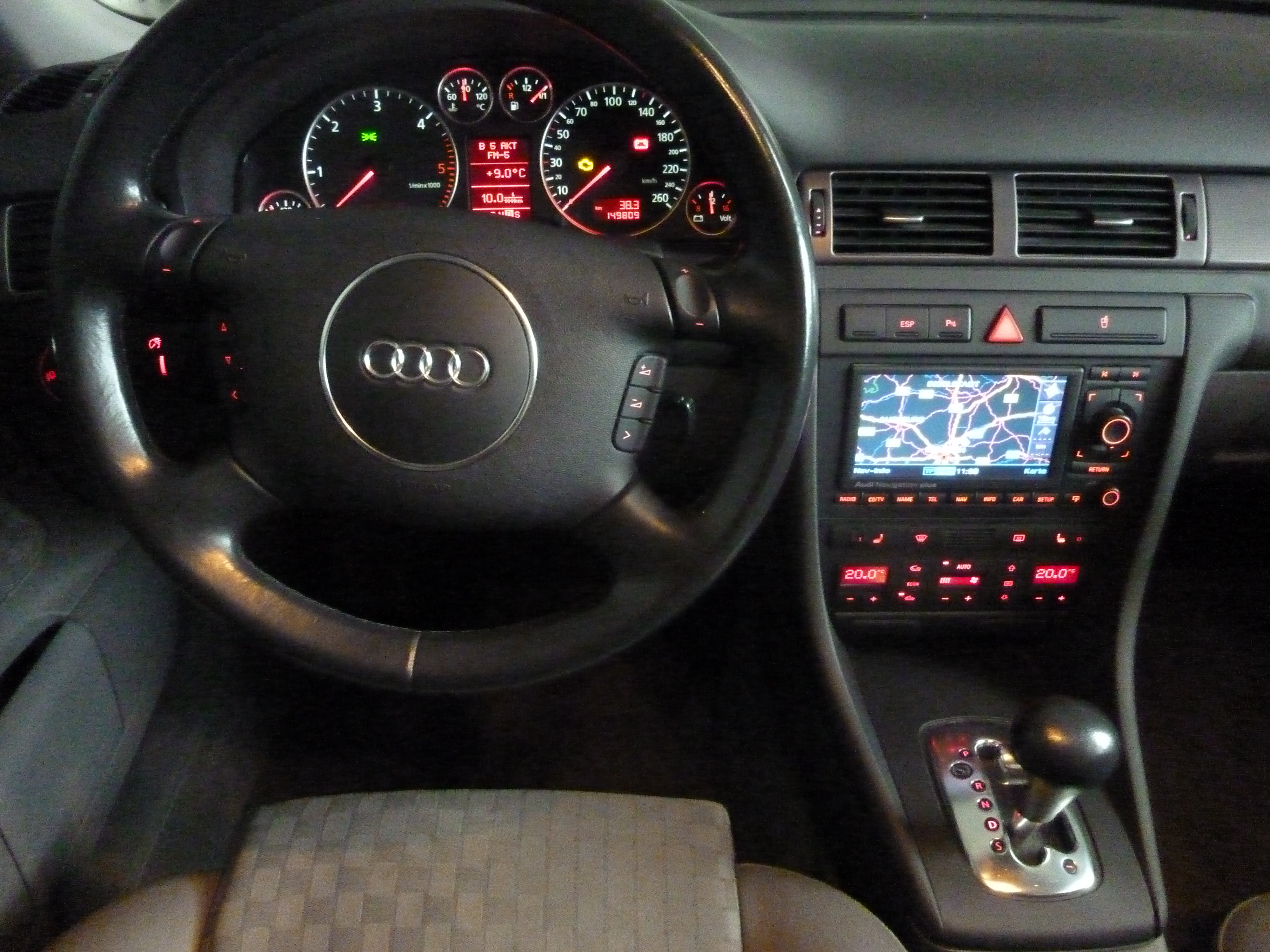 Dashboard 2004 Audi A6 Avant 2.5 TDI Quattro